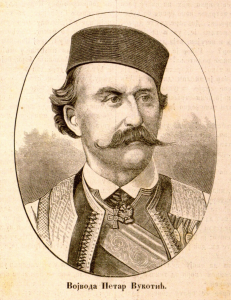 Petar Vukotić